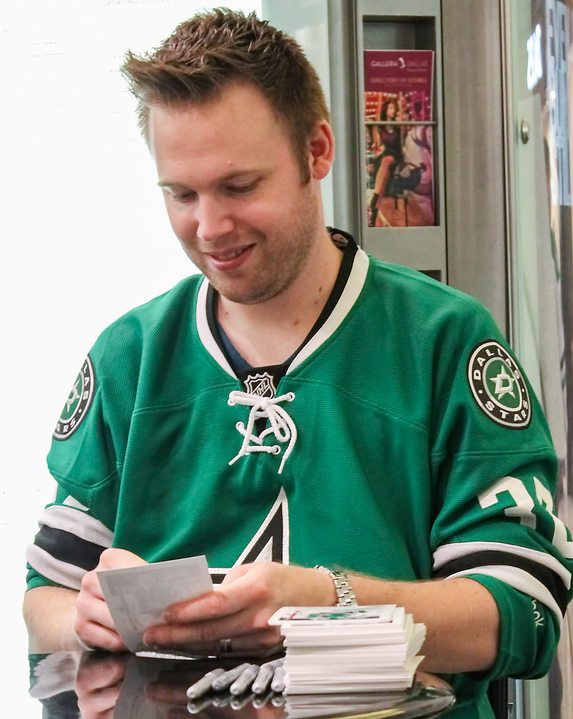 Dallas Stars Ice Breaker 2014 Sept 13, 2014 Galleria Dallas